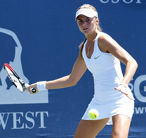 Daniela Hantuchová at the U.S. Open Series at Stanford.